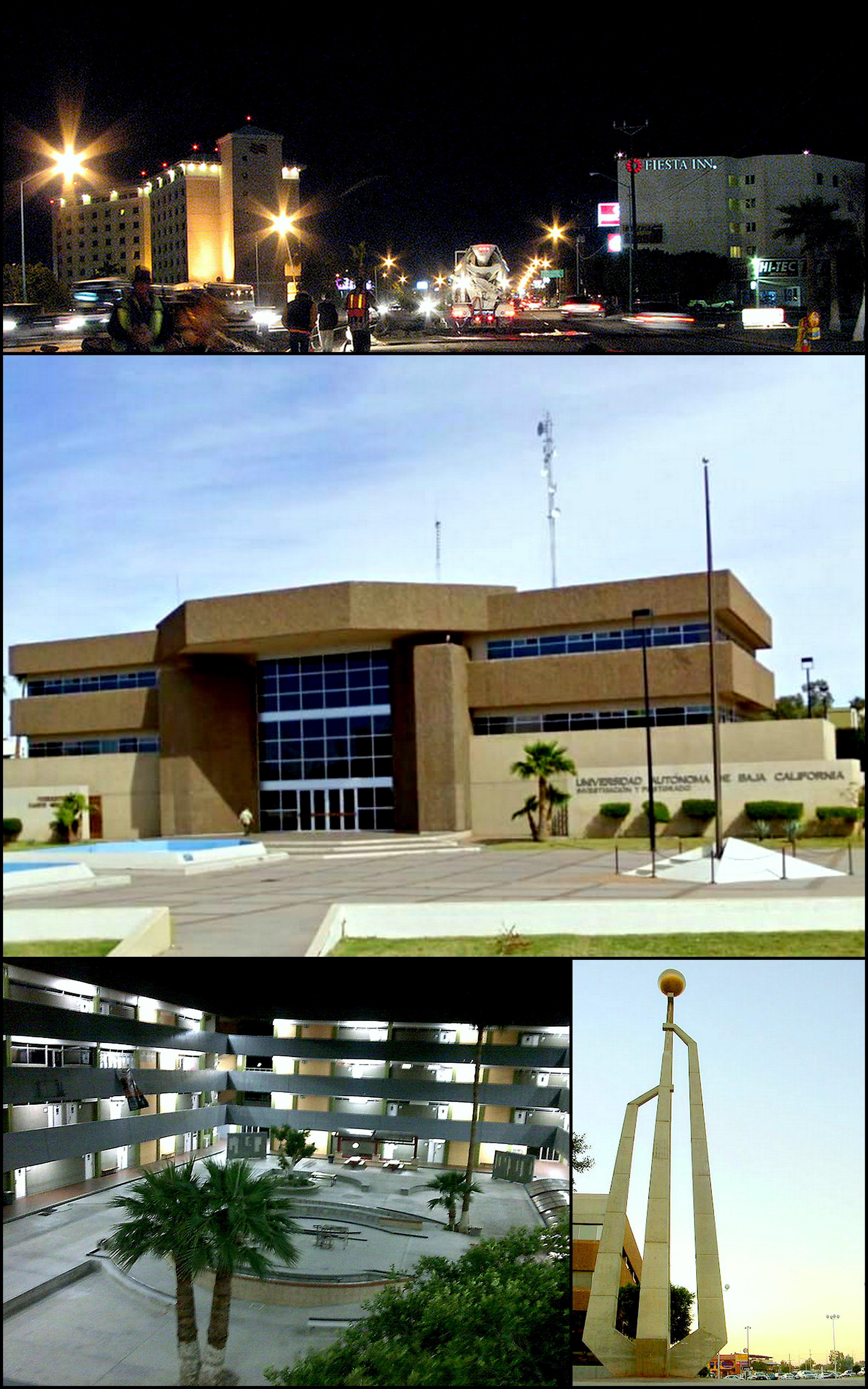 Montage of Mexicali images on Commons